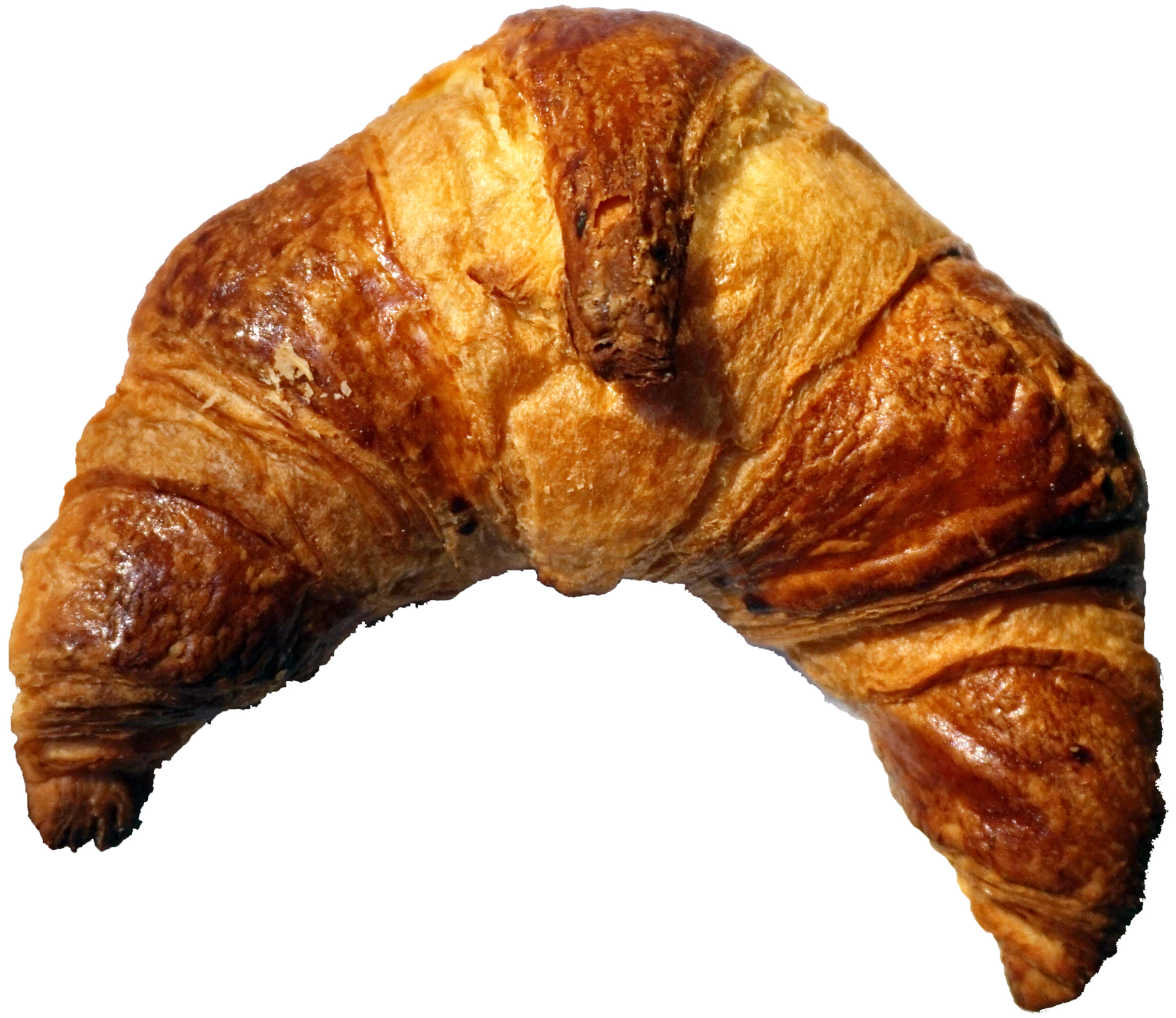 A croissant.